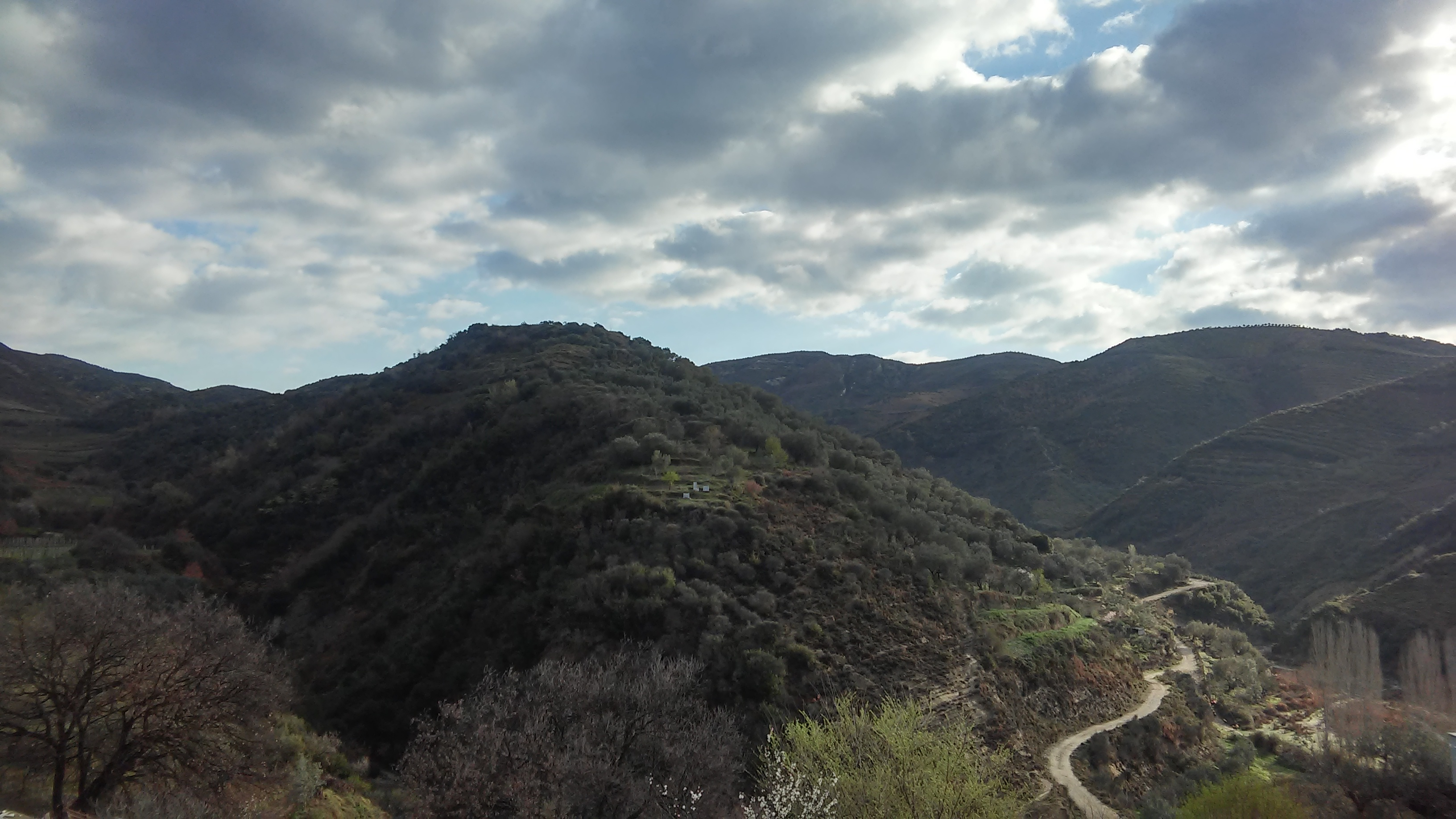 A View of small places around Cakran